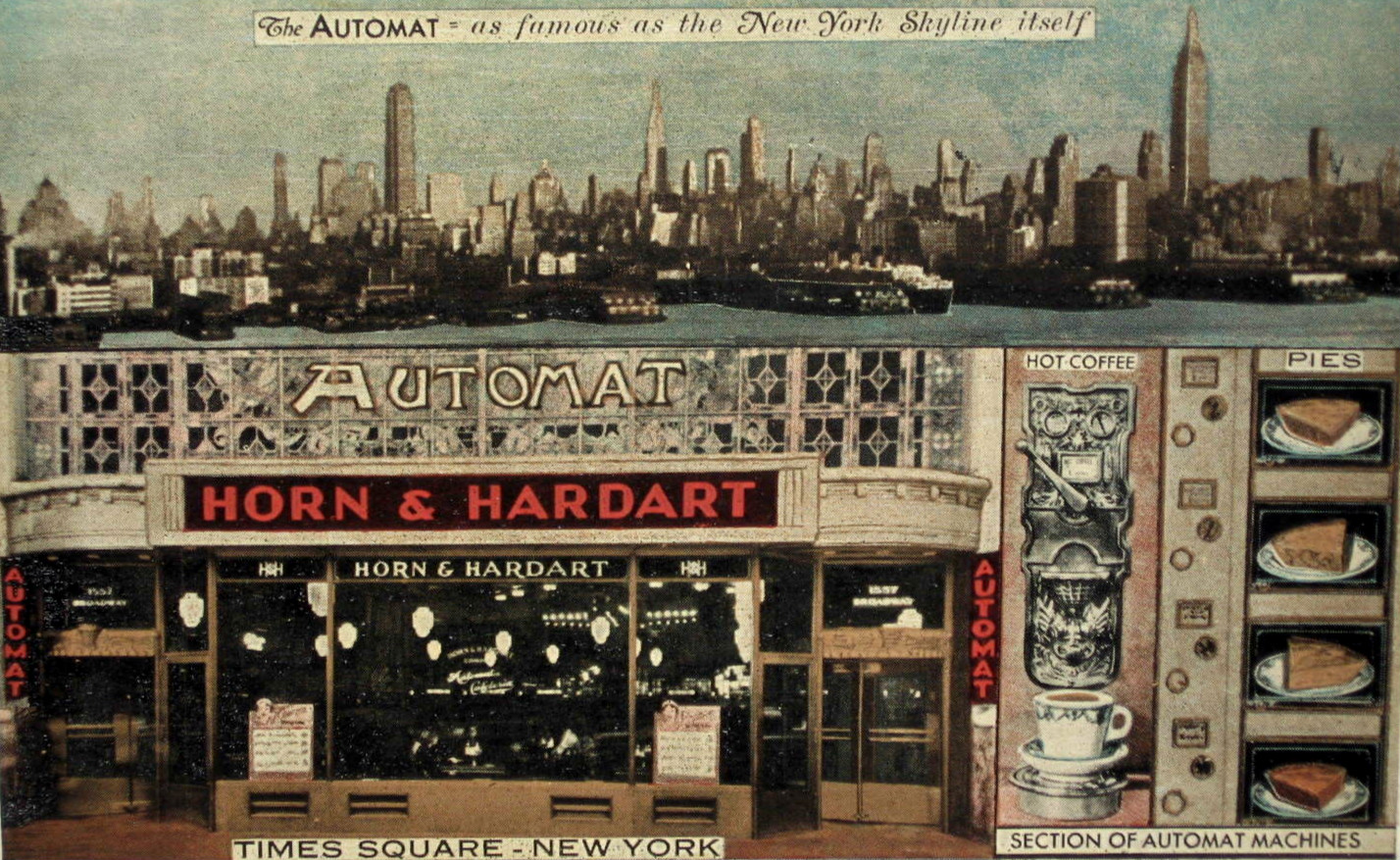 Photo postcard from Horn & Hardart, New York, picturing its Times Square automat restaurant.